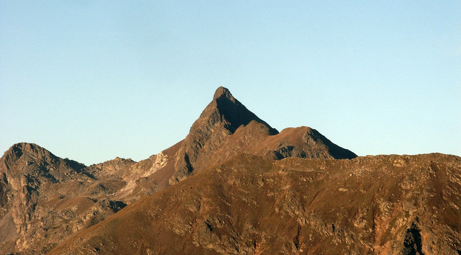 Sarntaler Weißhorn, South Tyrol, Italy (early morning)